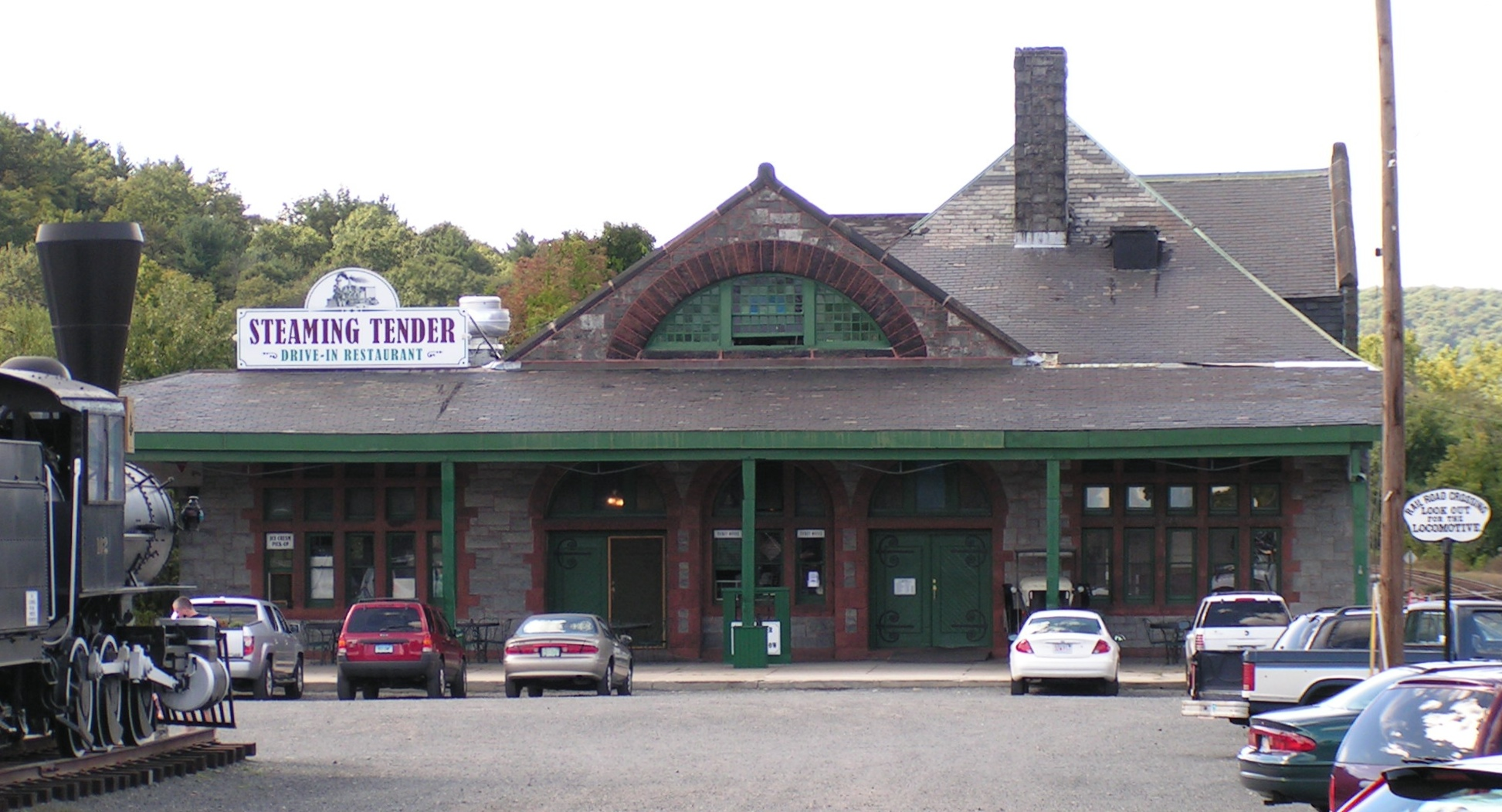 Front view of Palmer's historic Union Station, designed by H.H. Richardson. Currently it is home to the "Steaming Tender" restaurant.